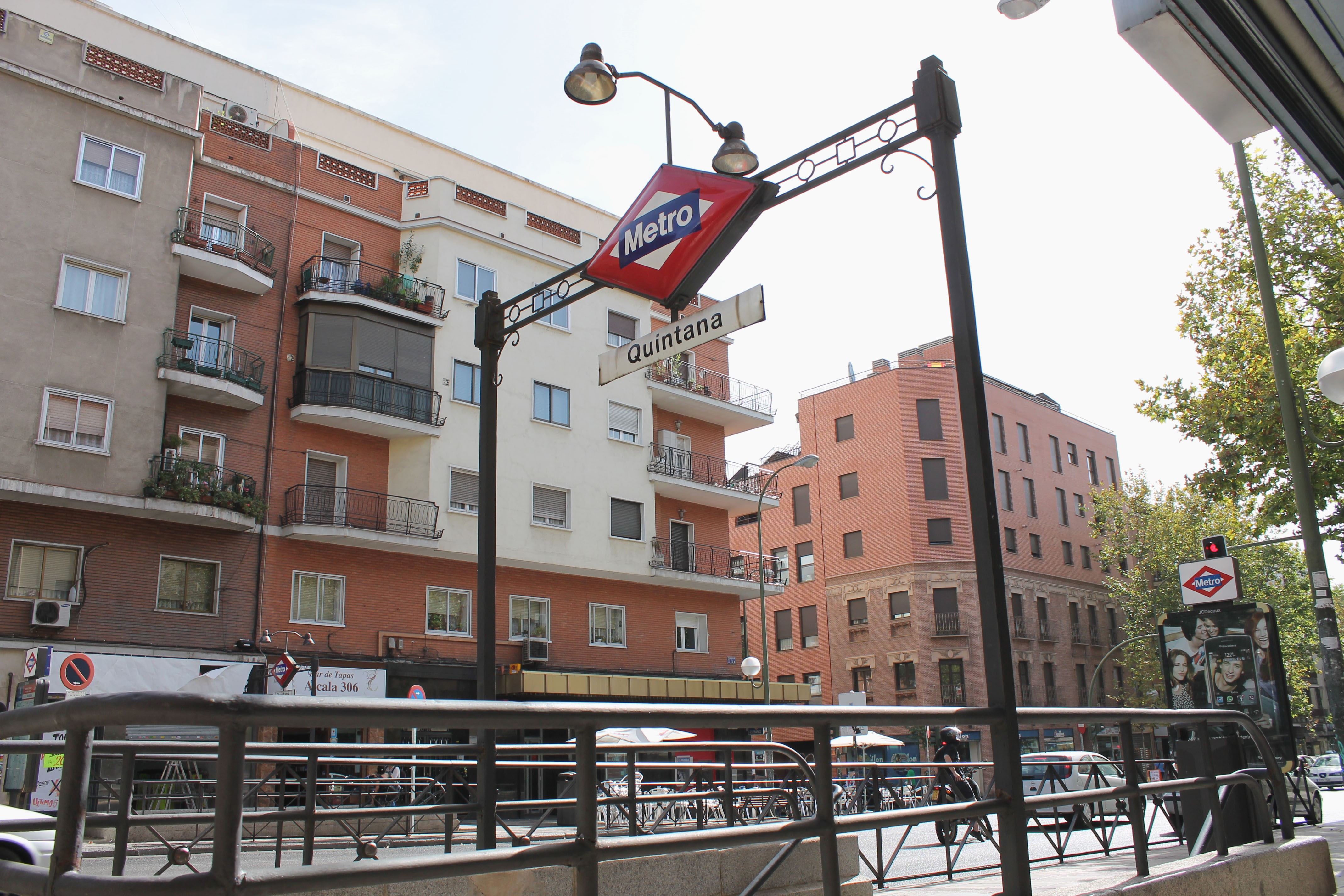 Entrance of Quintana metro station in Ciudad Lineal district in Madrid (Spain).